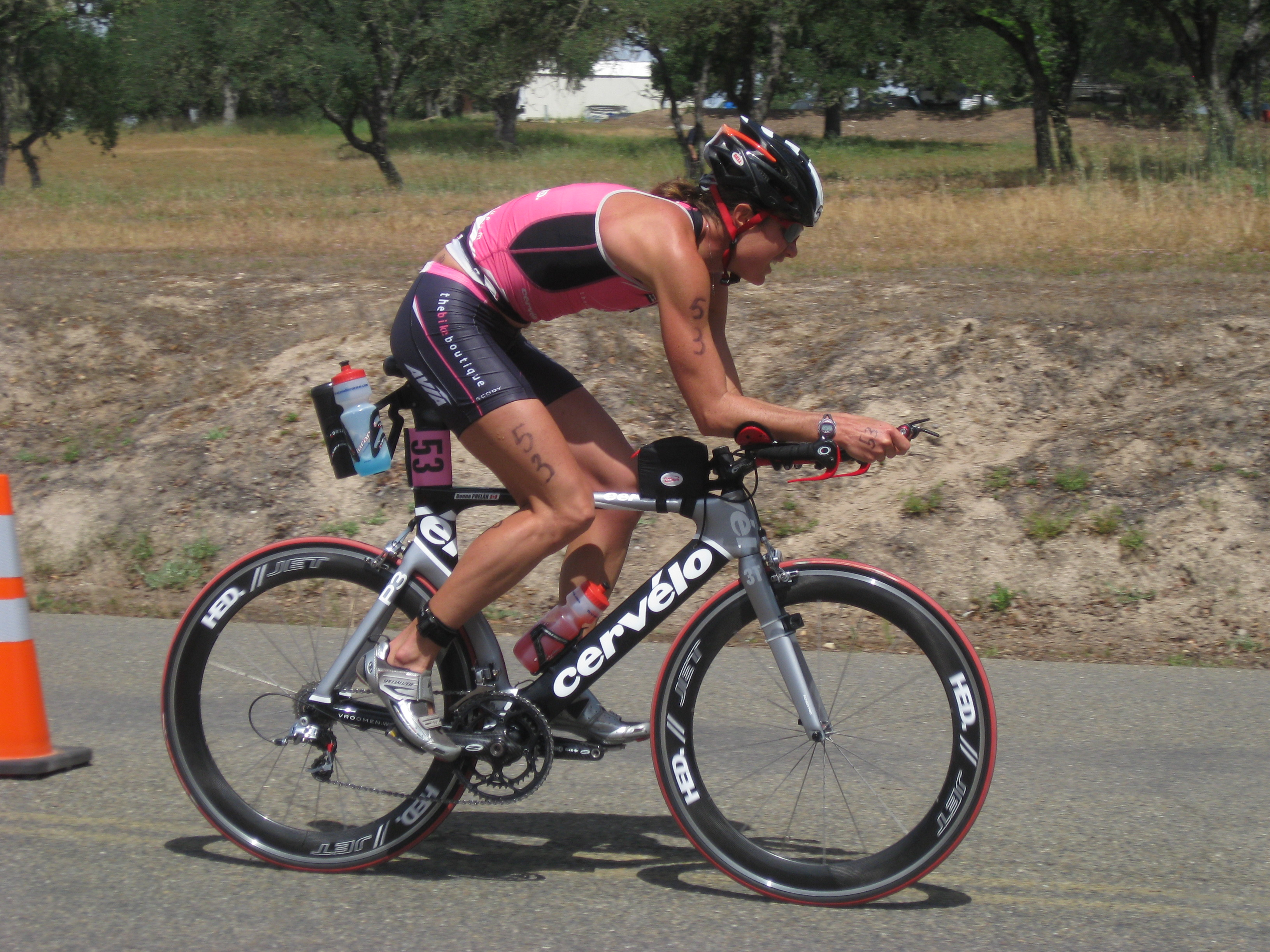 Donna Phelan at 2009 Wildflower Triathlon